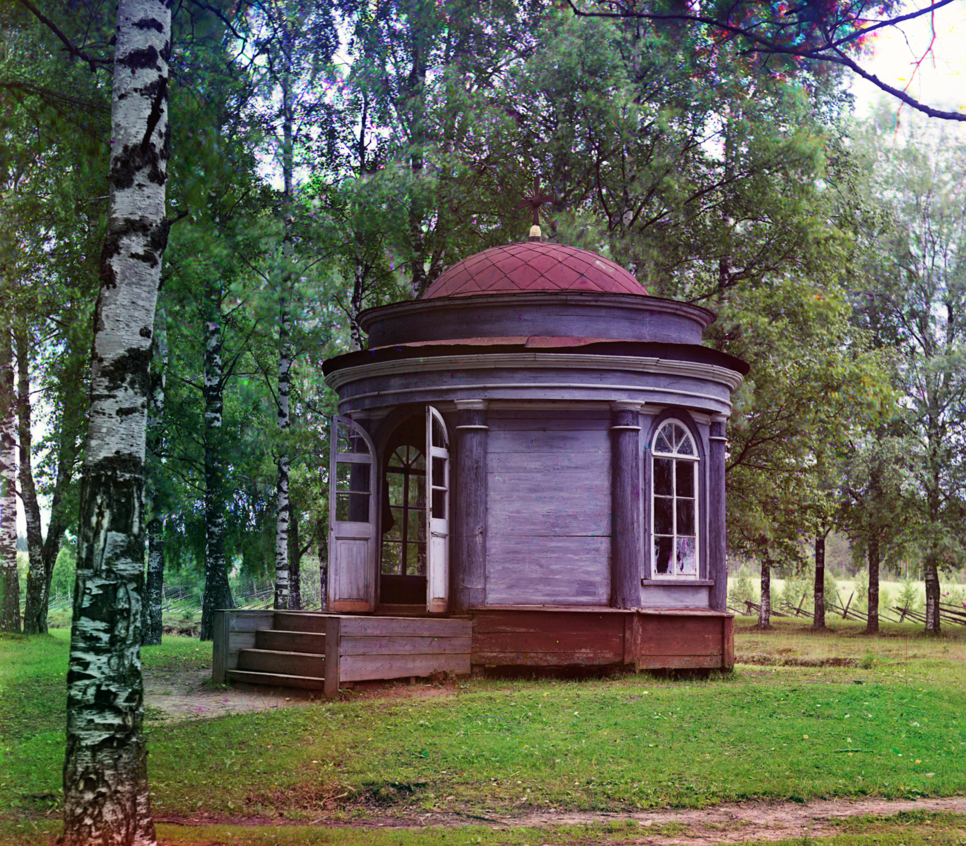 Chapel of Emperor Peter the Great, near the village of Petrovskoe. (Russian Empire)